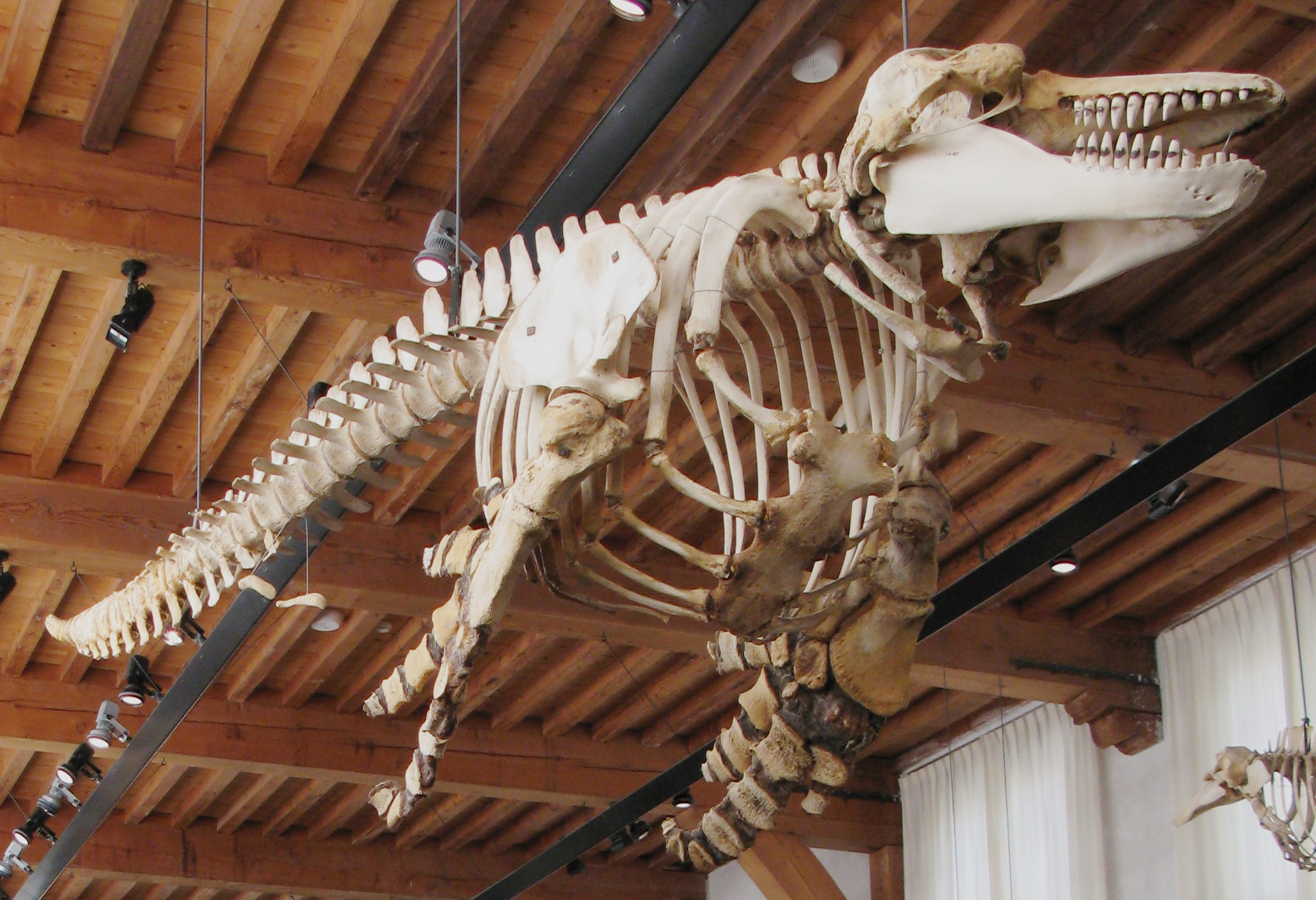 Natural history museum Naturalis, Leiden. Workshop. Lecture hall, killer whale skeleton (Orcinus orca) suspended from ceiling. This picture is a cut-out of File:Naturalis Biodiversity Center - Museum - Workshop - Lecture hall, killer whale skeleton suspended from ceiling.jpg.